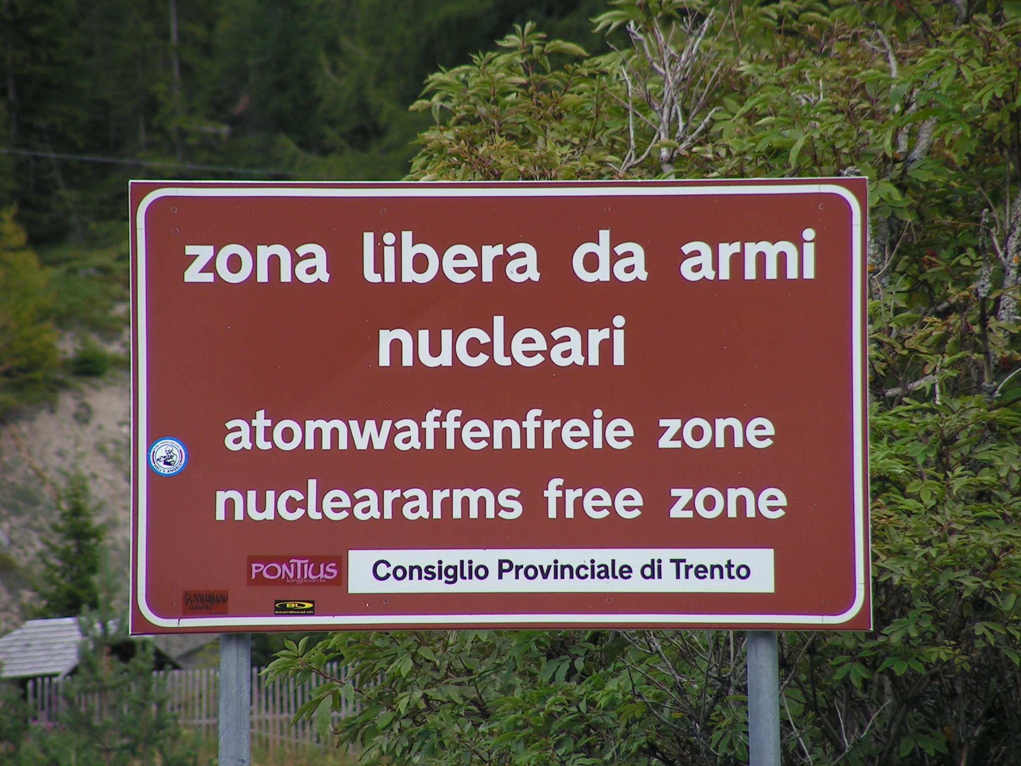 A curious road sign on the Passo di Costalunga/Karerpass (Italy), showing: "zona libera da armi nucleari" in Italian; "atomwaffenfreie zone" in German; "nucleararms free zone" (sic!) in English.